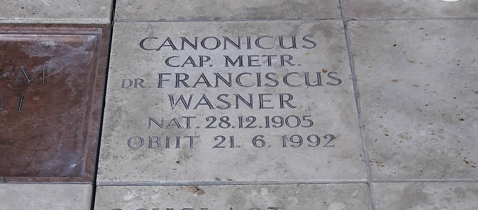 Memorial to Franz Wasner (1905–1992) in Crypt 52 (used as burial place of the Chapter of Salzburg Cathedral) at Petersfriedhof Salzburg. He acted as priest to the Trapp Family ("The Sound of Music") and arranged some 150 of their songs.